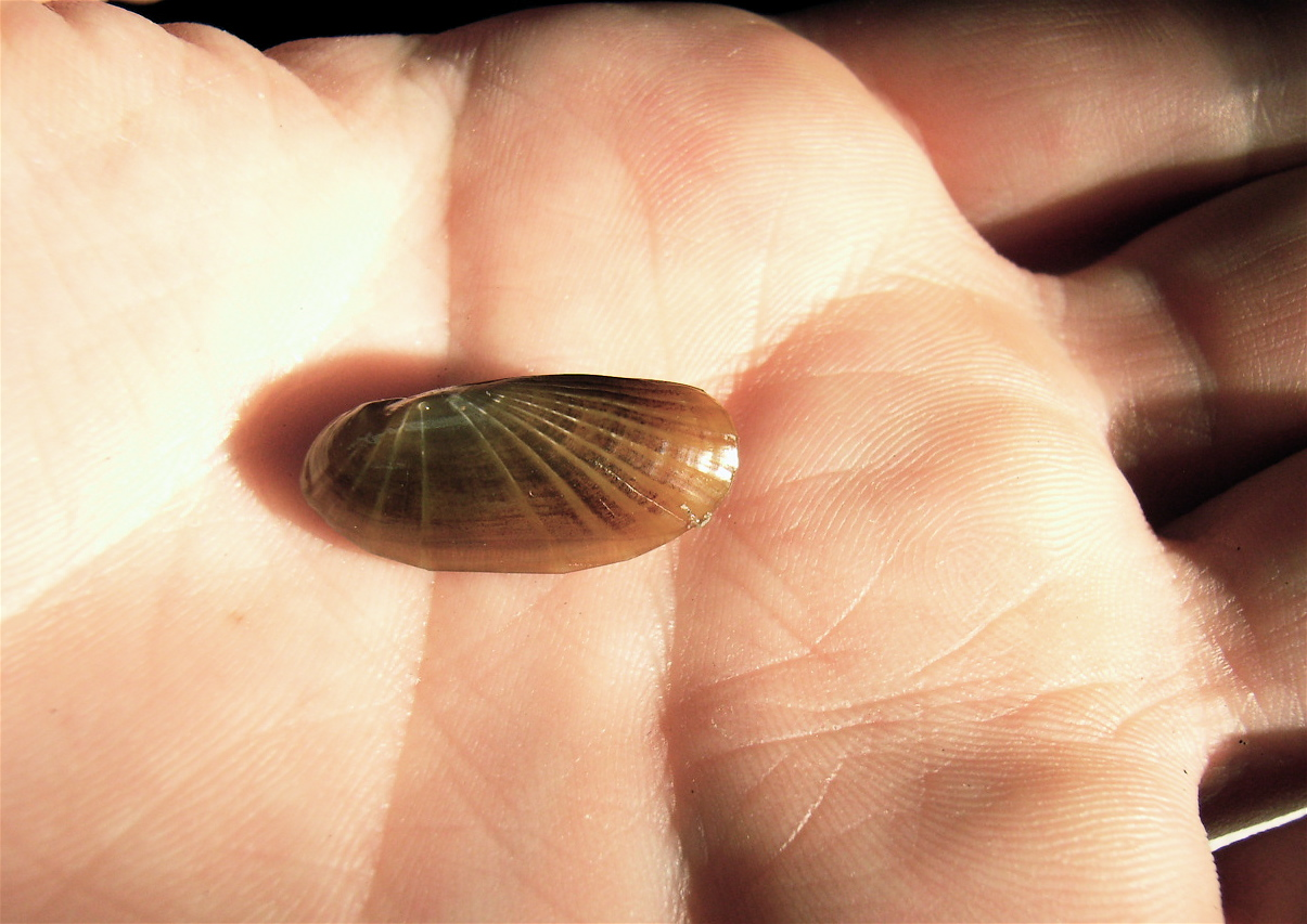 Harvard University, Cambridge, MA, USA. Solemya velum bivalve on hand. Collected from subtidal sulfuric sediment.